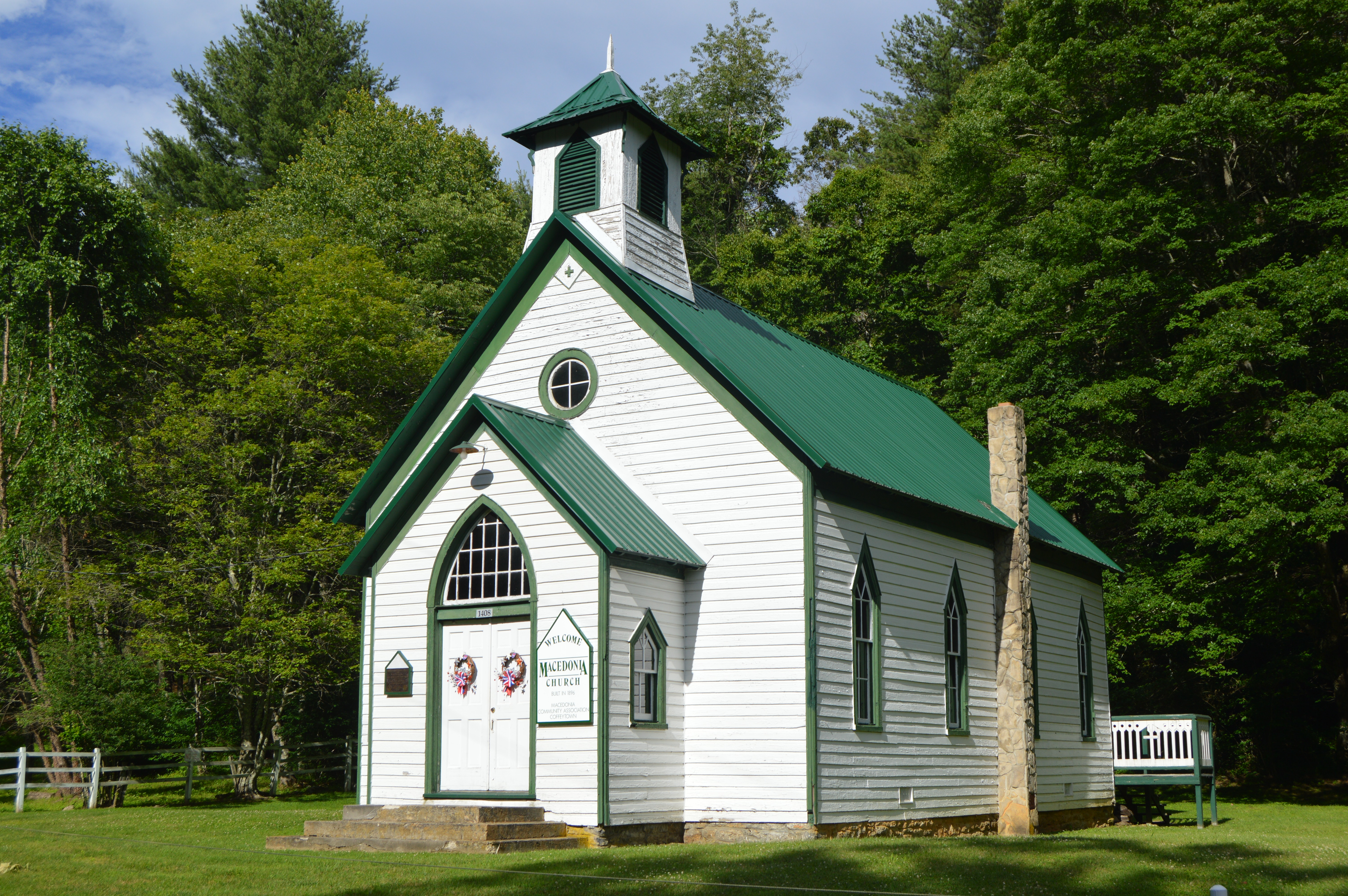 Front and southwestern side of Macedonia Methodist Church, located at 1408 Coffeytown Road east of Buena Vista in Amherst County, Virginia, United States. Built in 1896, it is listed on the National Register of Historic Places.